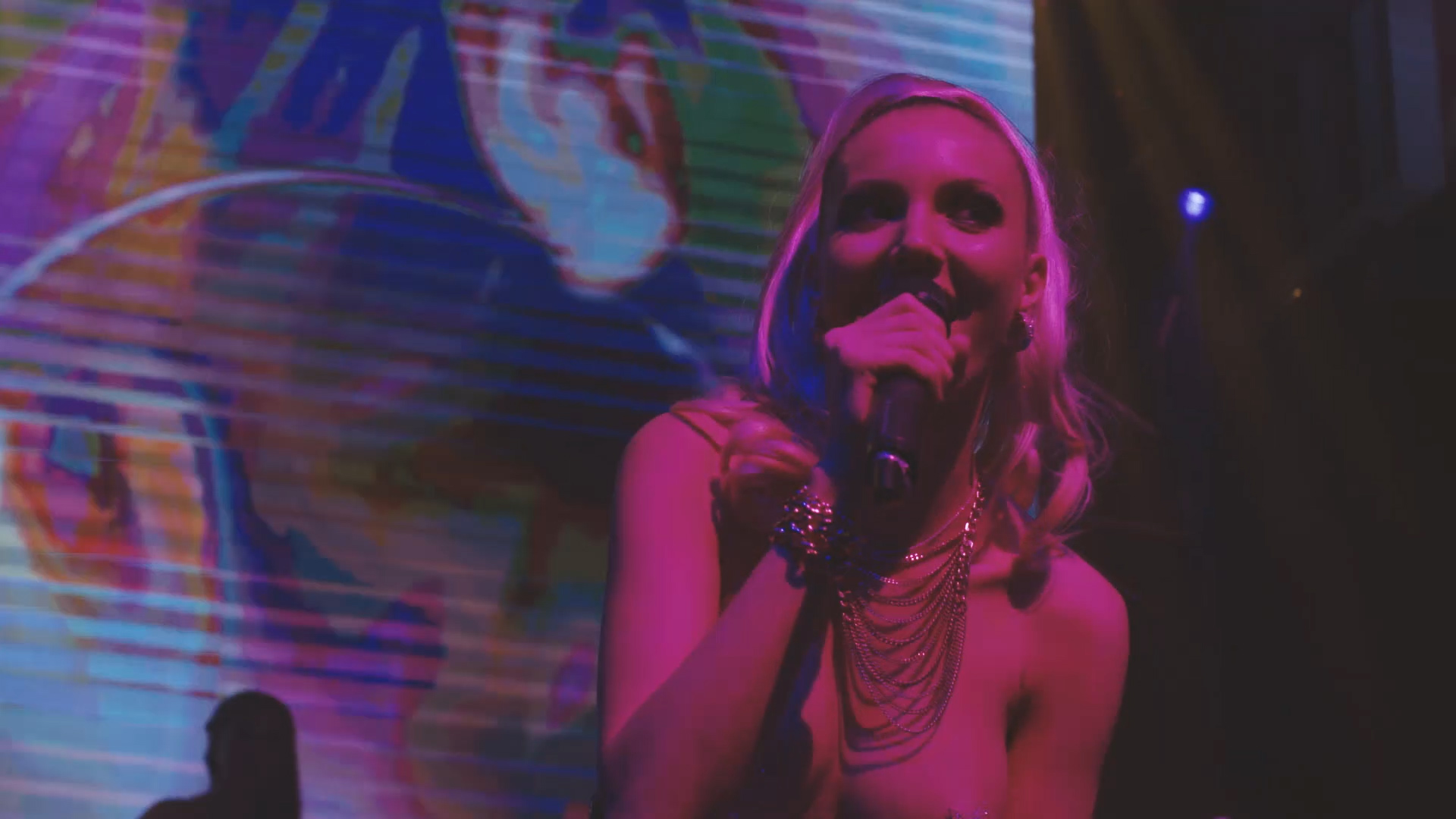 Anca Pop during her "Cosmic Cocktail" show in Macao.